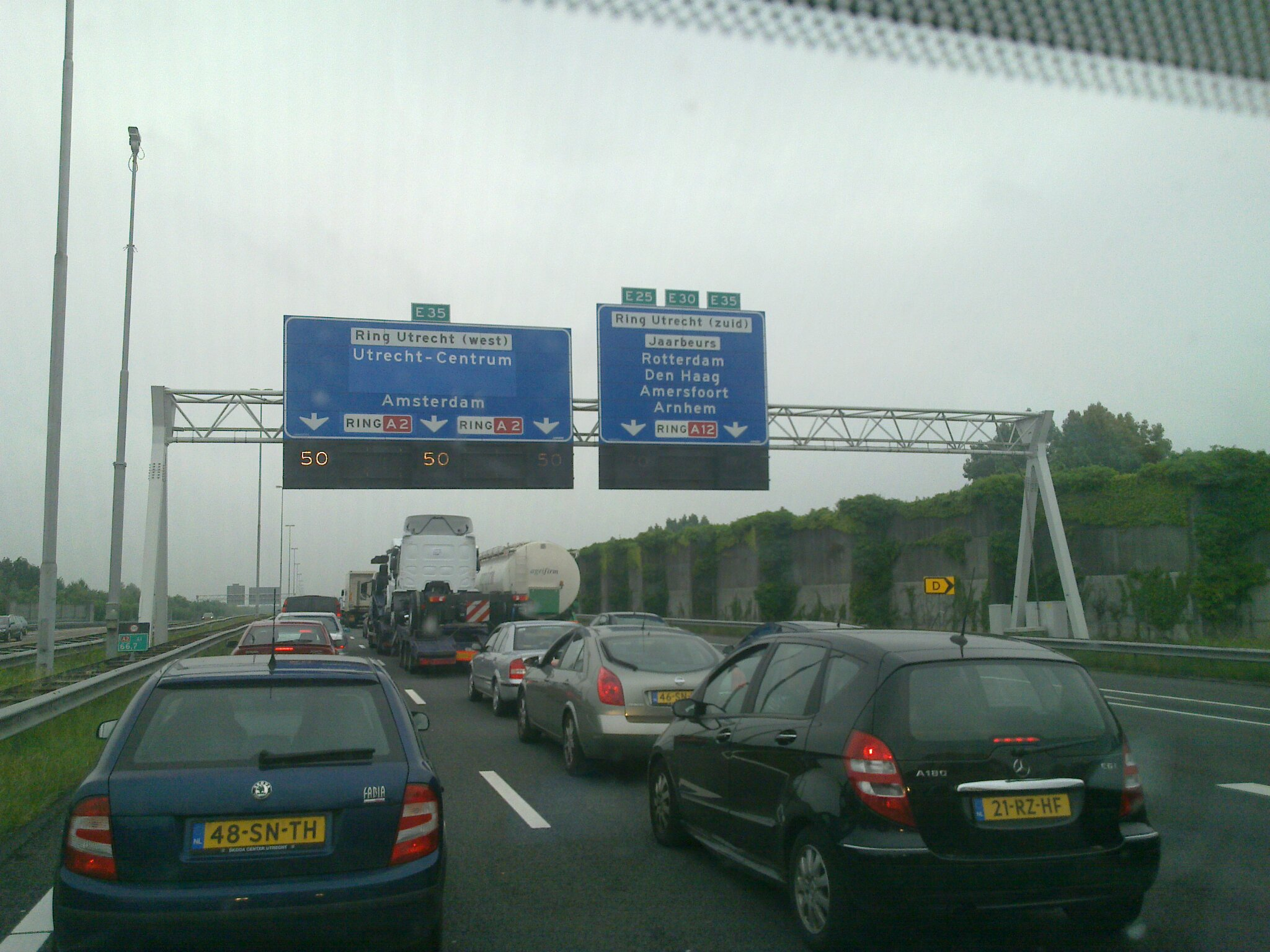 Traffic jam in the Netherlands